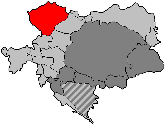 Map of Austria-Hungary